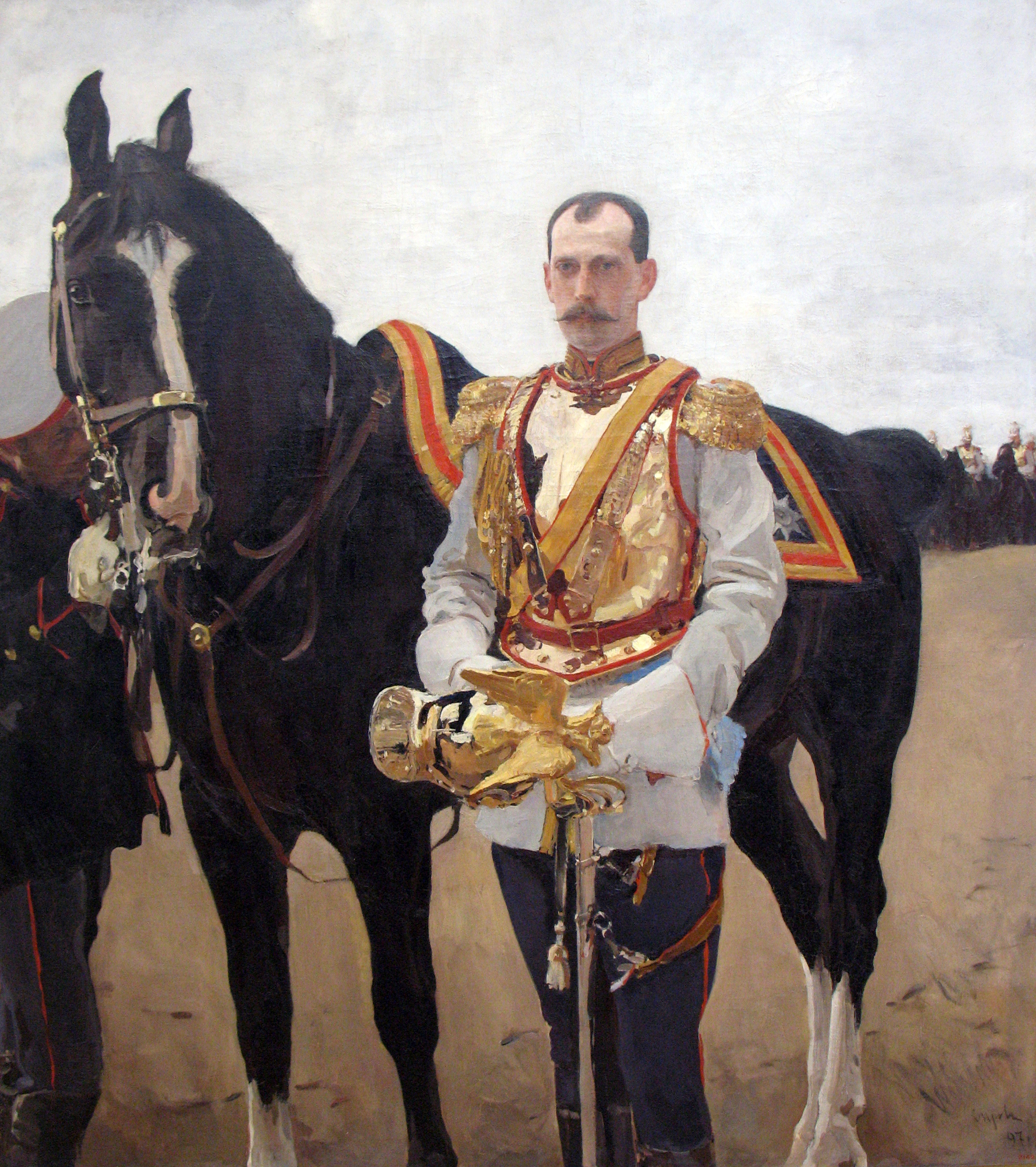 Portrait of Grand Duke Pavel Aleksandrovich